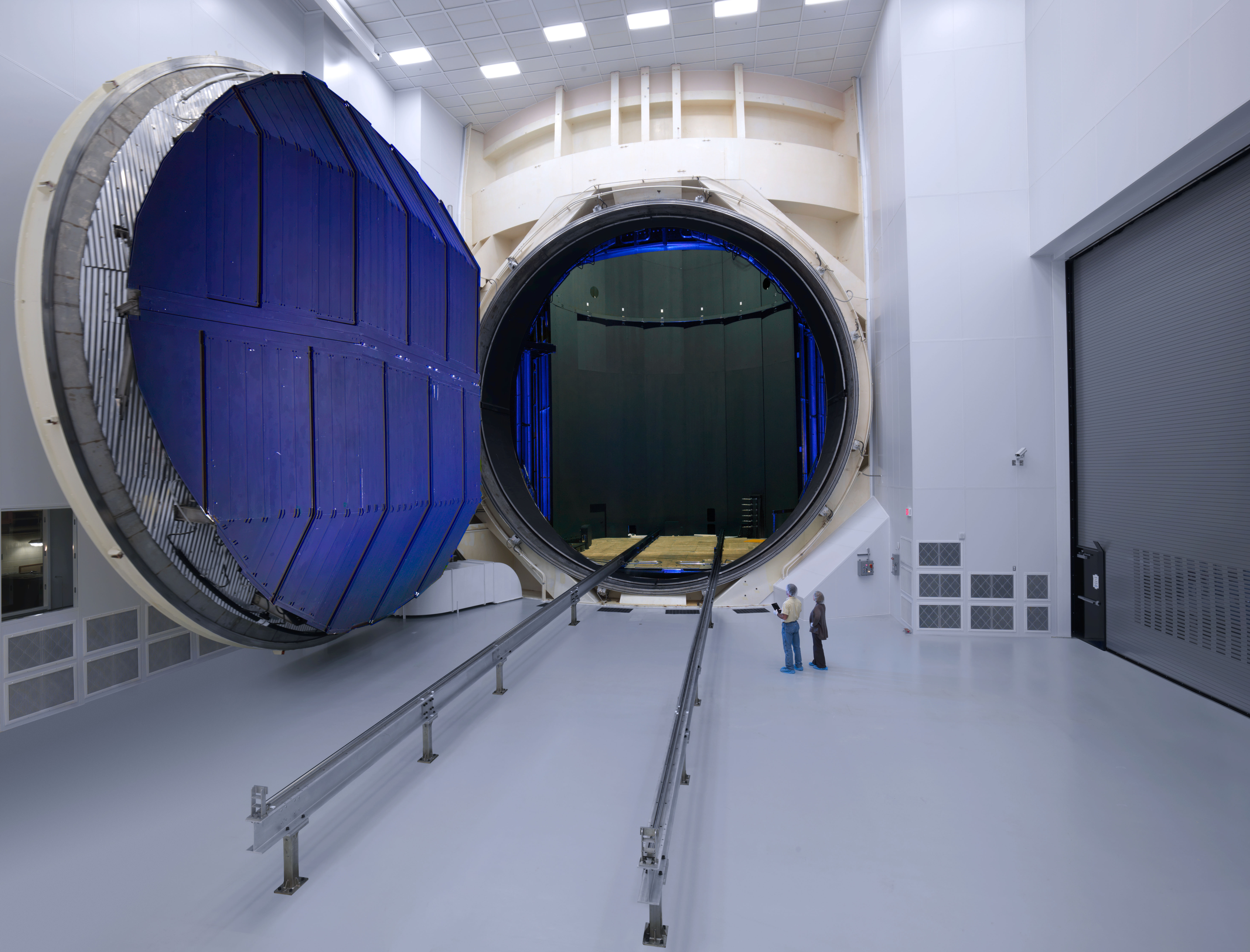 Space Environment Simulation Laboratory at Johnson Space Center Building 32, Chamber A showing the modifications and surrounding clean room to support the arrival and testing of the James Webb Space Telescope.